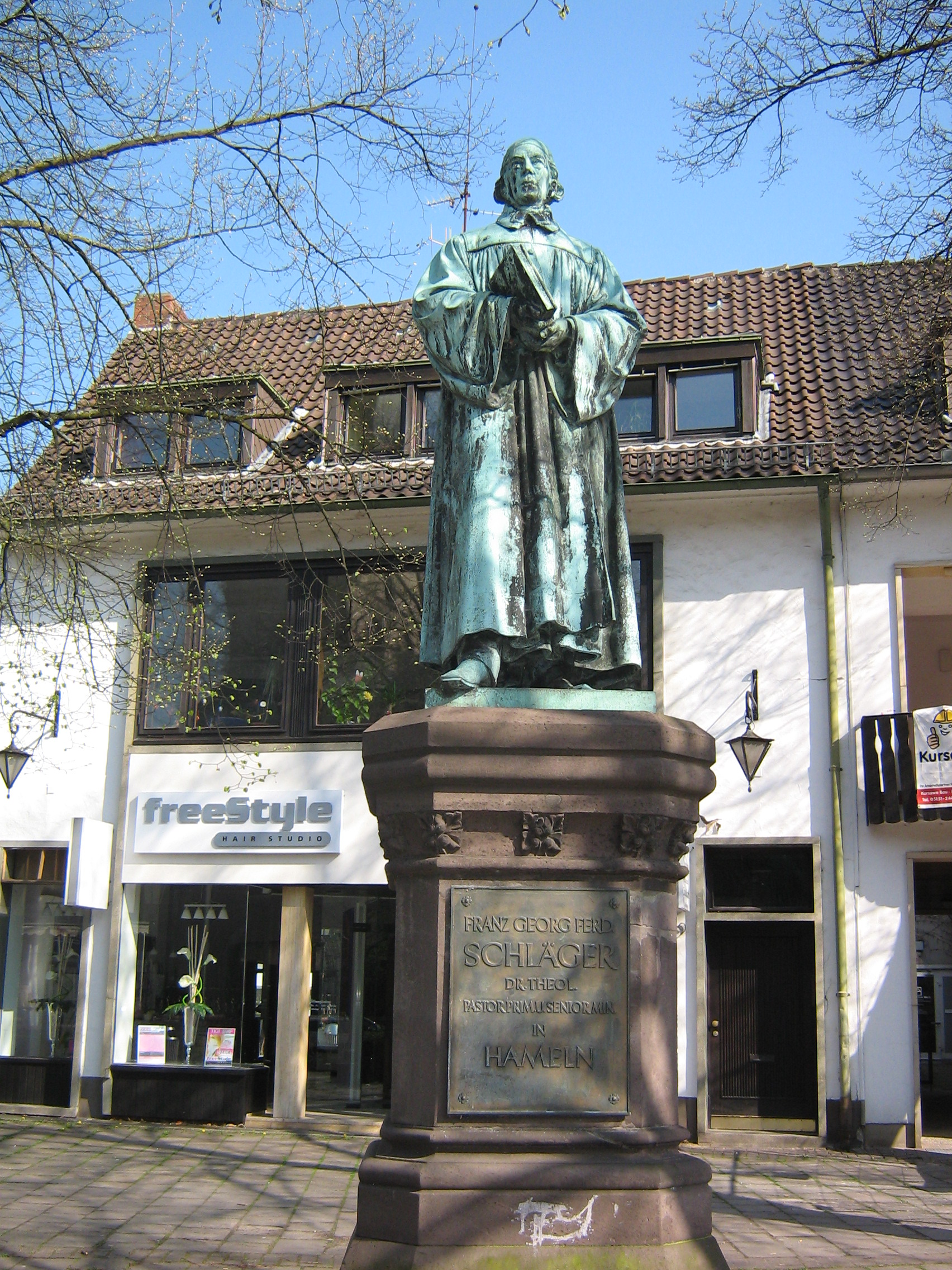 Statue_of_Franz_Georg_Ferdinand_Schläger, city of Hamelin